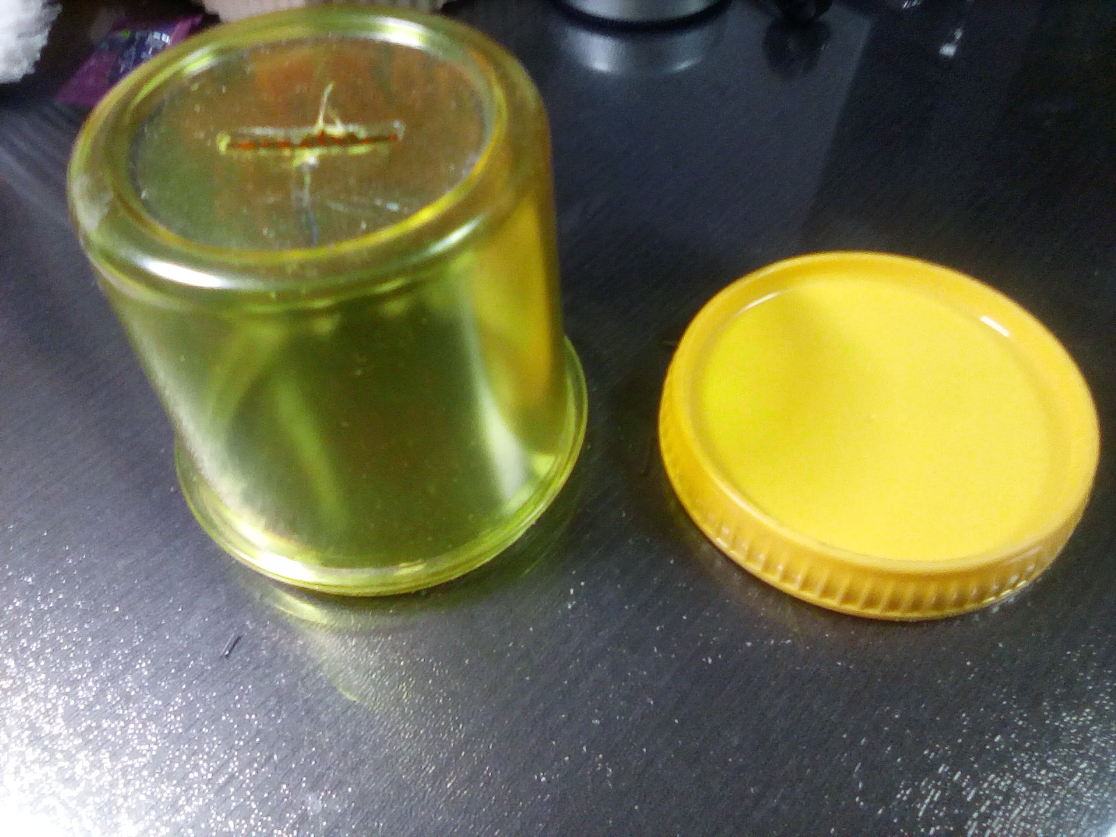 A money box with its removed cover.